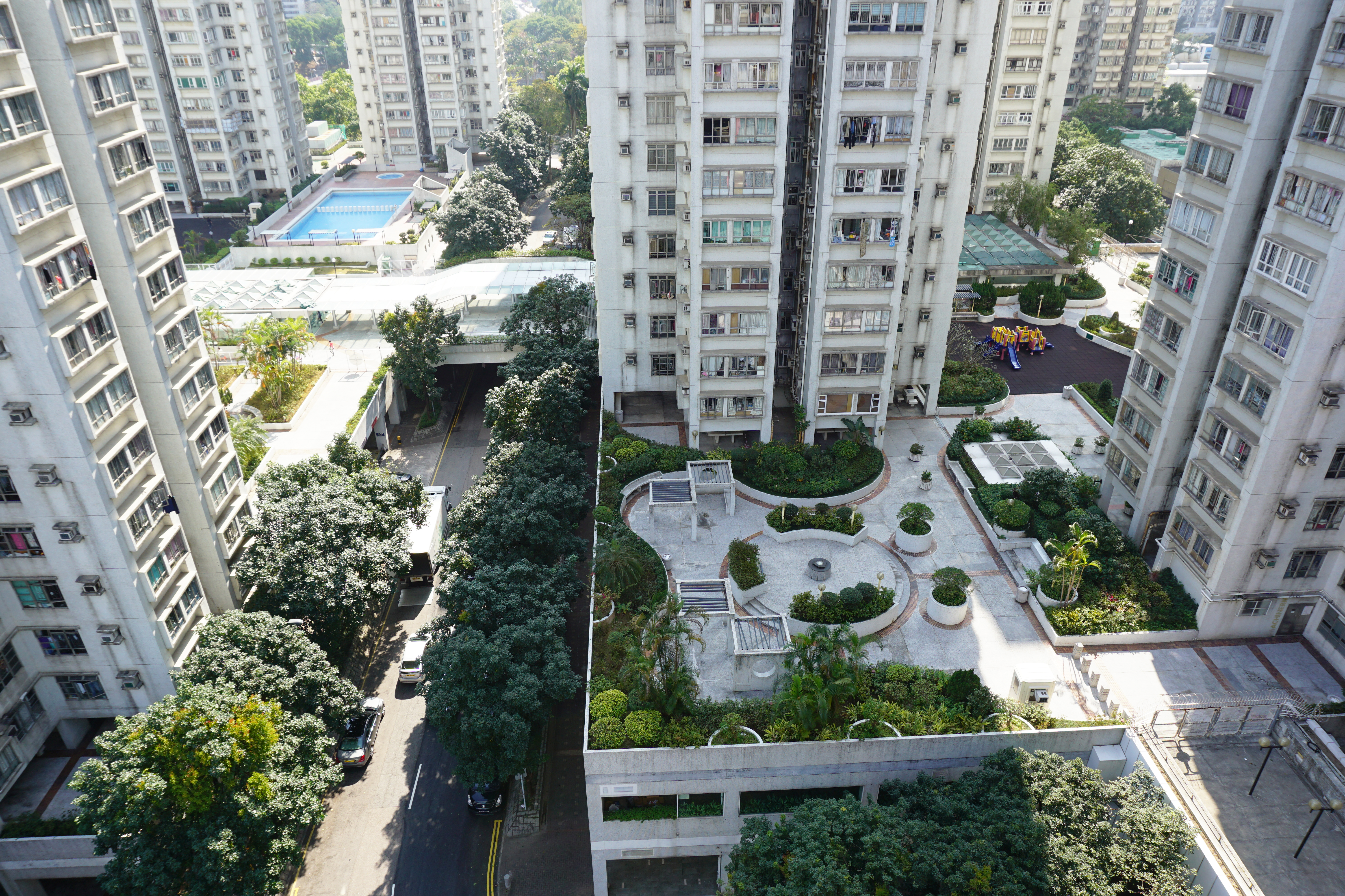 Tai Po Centre in Tai Po, Hong Kong.